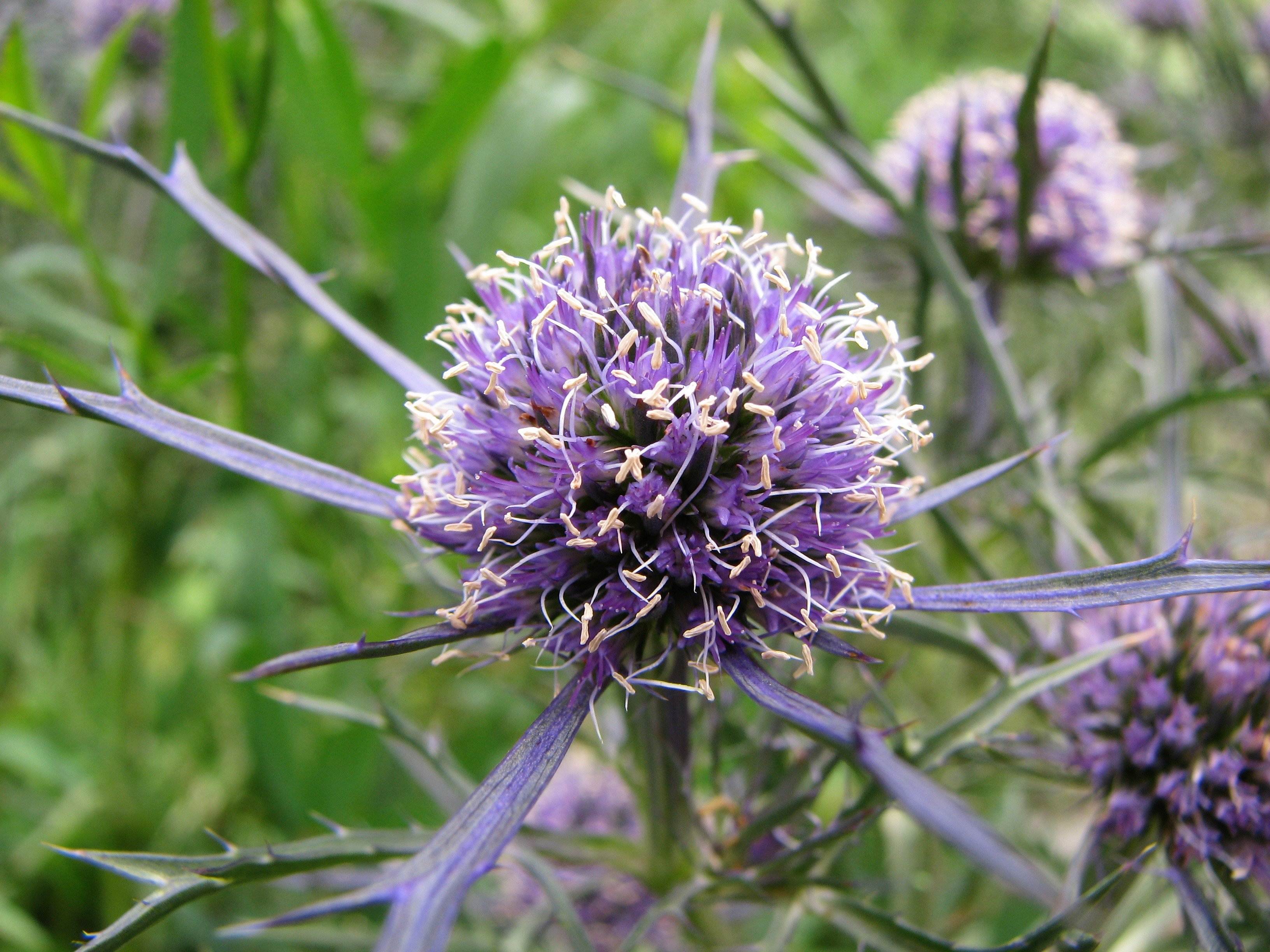 Eryngium caucasicum (syn. Eryngium caeruleum), flowering, plant cultivated in Wrocław University Botanical Garden, Wrocław, Poland.